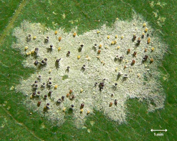 Detail of Uncinula Tulasnei Fuckel.